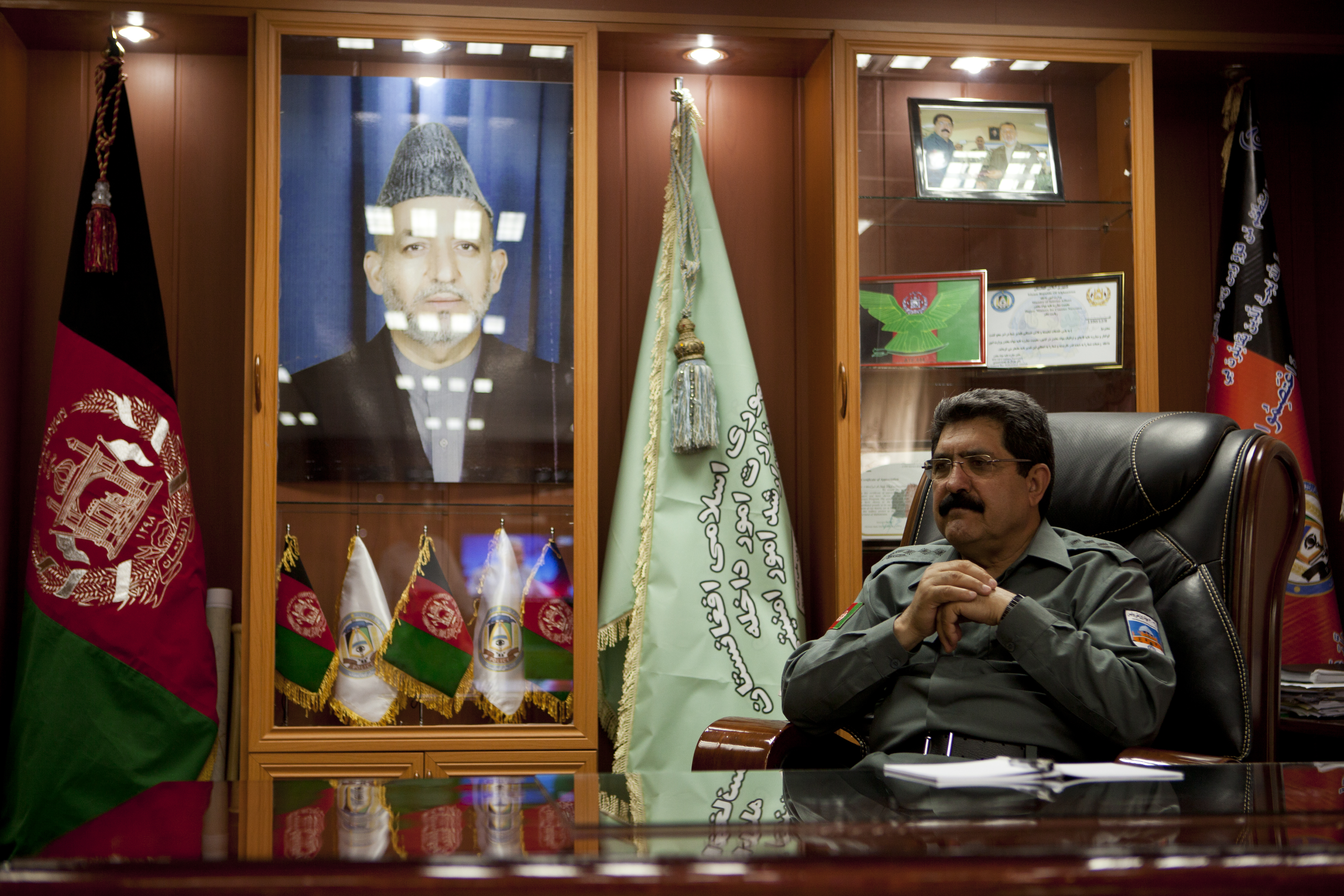 Afghan National Police Col. Abdul Eliam, the provincial chief of police, meets with U.S. Marine Corps Maj. Gen. Walter L. Miller Jr., not shown, the commanding general of the International Security Assistance Force Regional Command Southwest, in Lashkar Gah, Helmand province, Afghanistan, April 3, 2013. Miller and Eliam discussed current operations in Afghanistan.